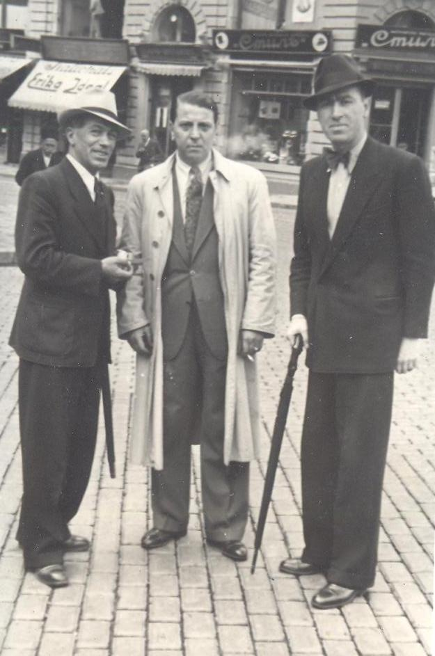 Asparuh (Ari) Leshnikov